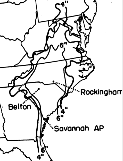 This graphic shows rainfall in the eastern states covering September 13-18, 1945 associated with a tropical cyclone